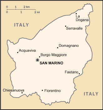 This is from the CIA Factbook, no tags except for a distance scale, therefore a GFDL Image. Since I, the uploader, Wikipediaman123 contribute under the ShareAlike, this image is also under the ShareAlike.